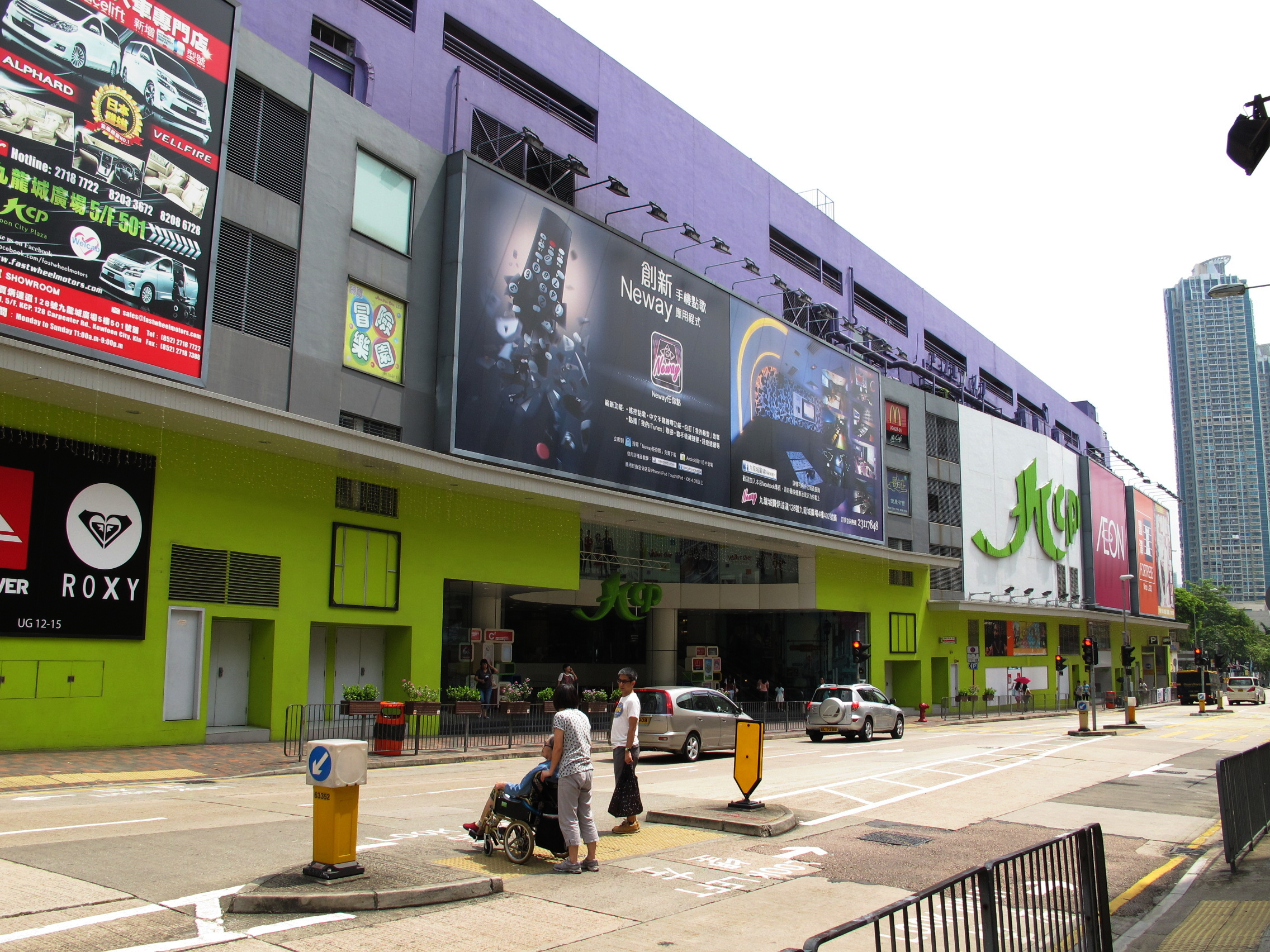 Kowloon City Plaza Exterior